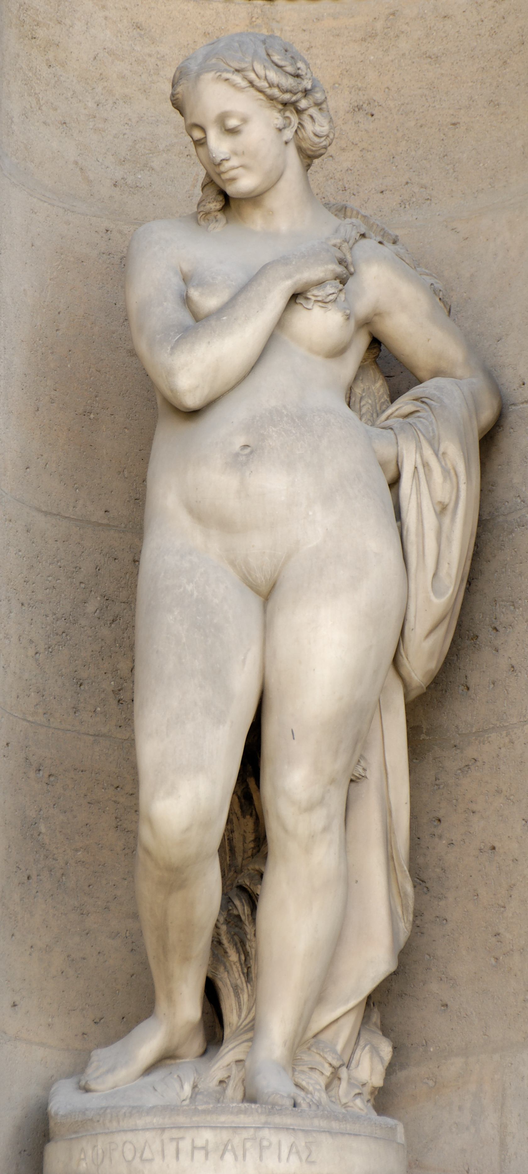 Rustic Aphrodite (1859), by Georges Clère (1819-1901). South façade of the Cour Carrée in the Louvre palace, Paris.